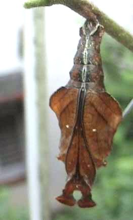 magnified egg of Commander on Mussaenda